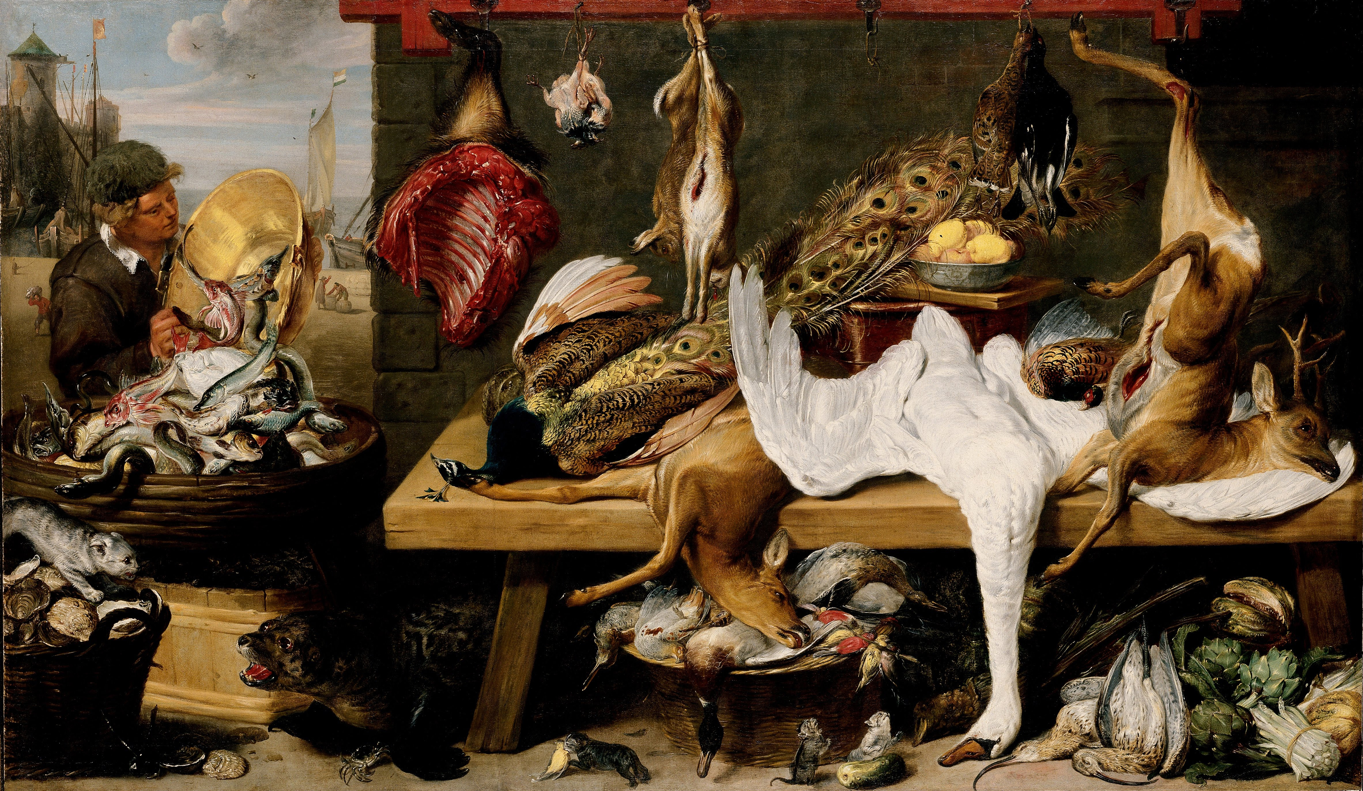 Market Scene on a Quay. circa 1635-1640. Frans Snyders and Workshop. Oil on canvas. 79 5/16 x 135 in. (201.5 x 342.9 cm). North Carolina Museum of Art via Google Cultural Institute.